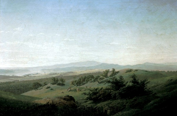 Landschaft mit See, (Böhmische Landschaft), 1810, Öl auf Leinwand, 68,5 x 102 cm